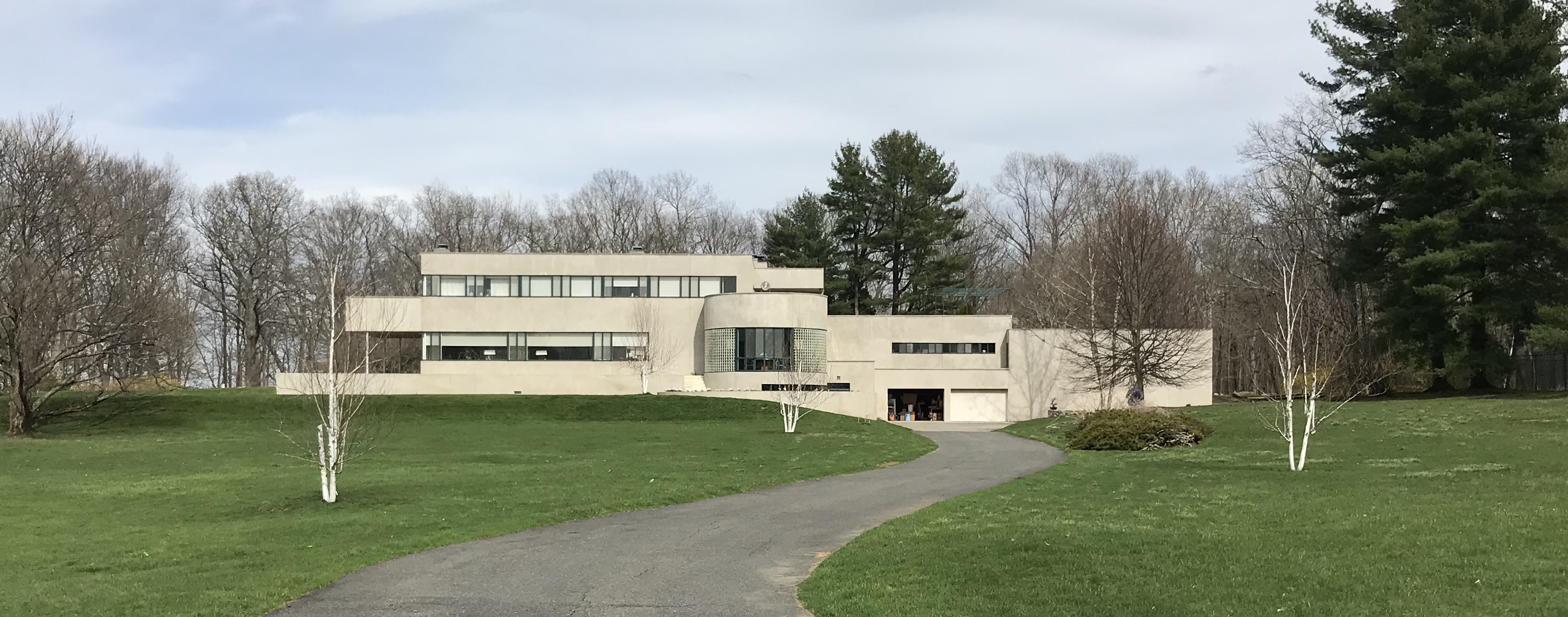 Mandel House in April 2018